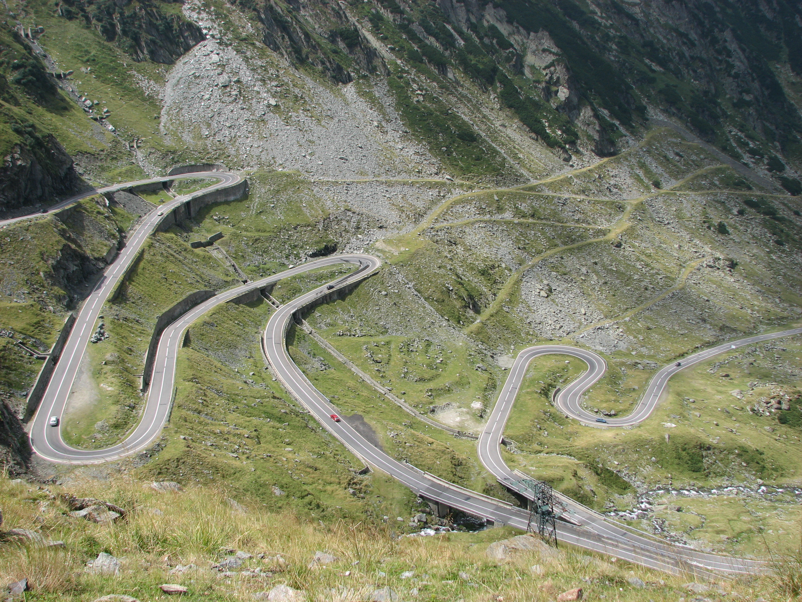 Transfăgărăşan, Făgăraş Mountains, Romania